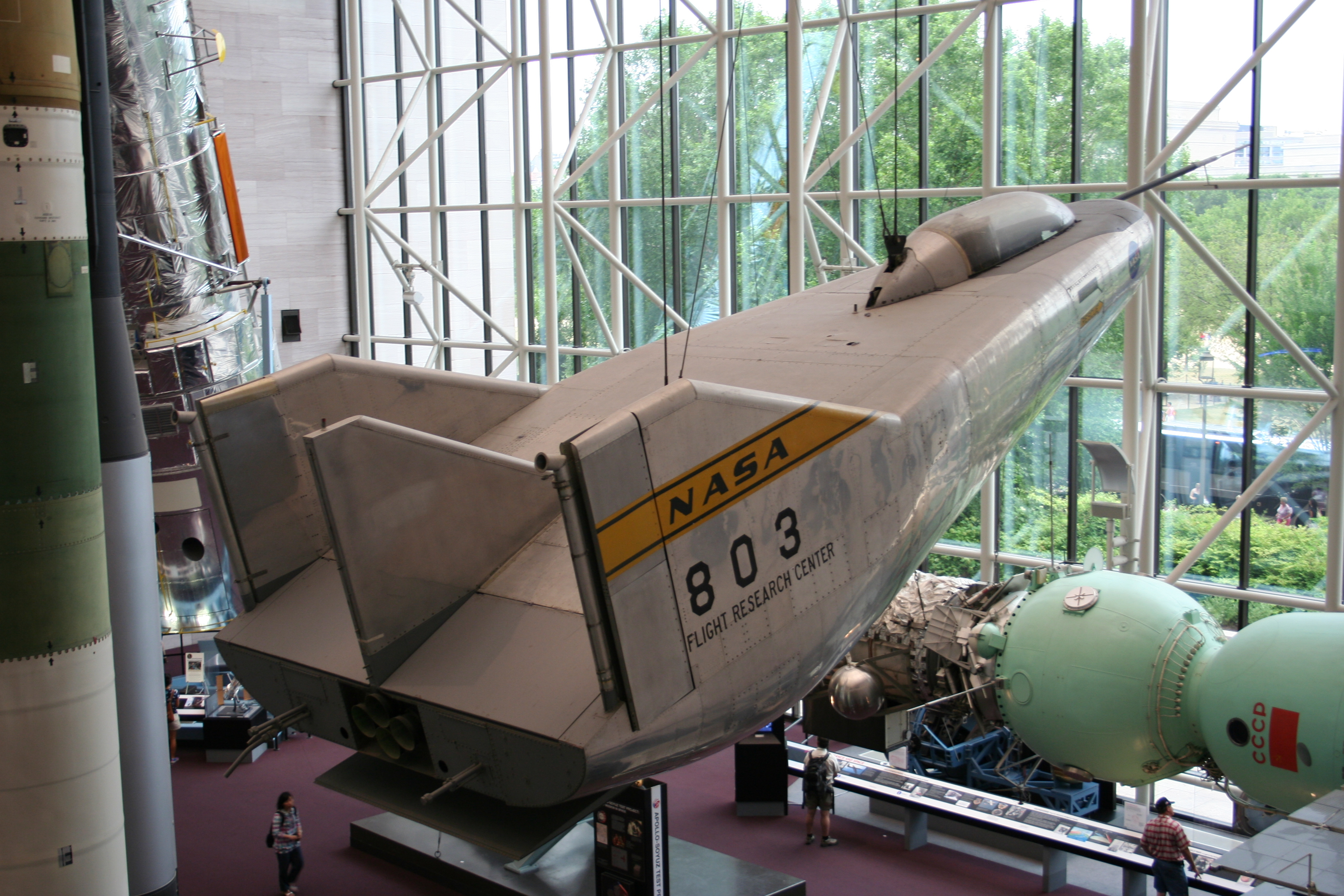 Northrop M2-F3 at the National Air and Space Museum